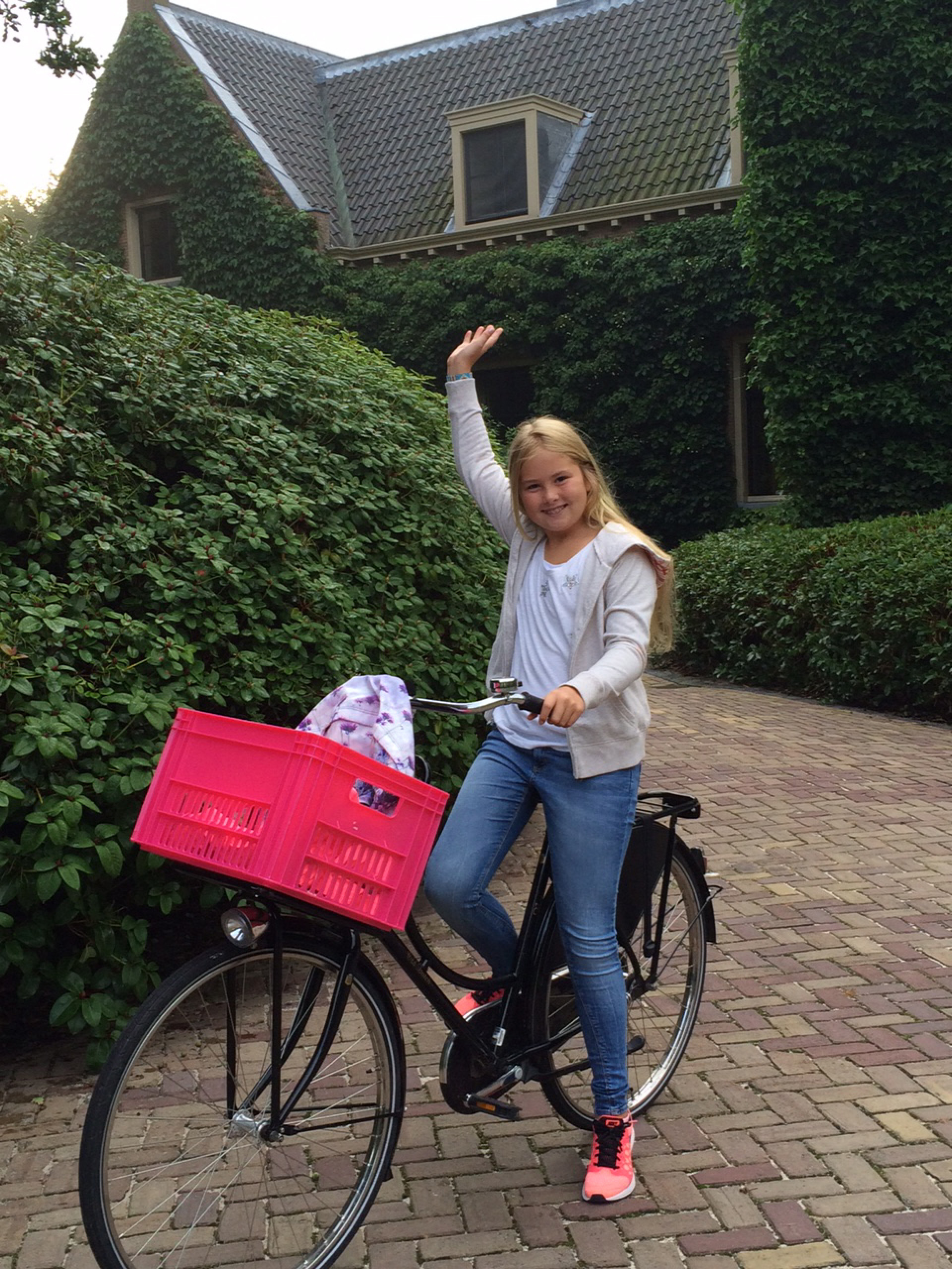 PIcture of the princess on a bike, on her way to school.